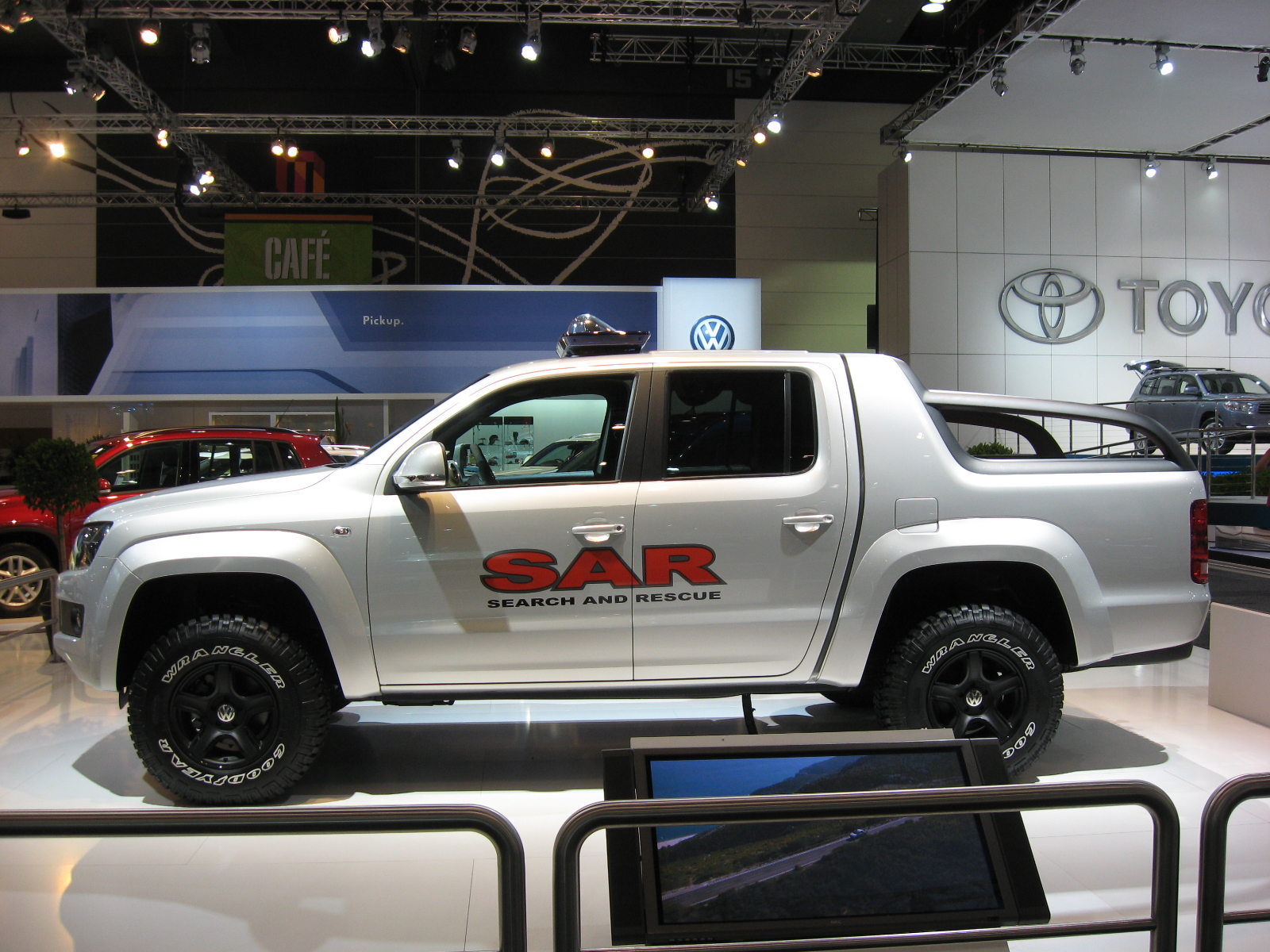 Volkswagen Pickup Concept at Melbourne International Motor Show 2009.